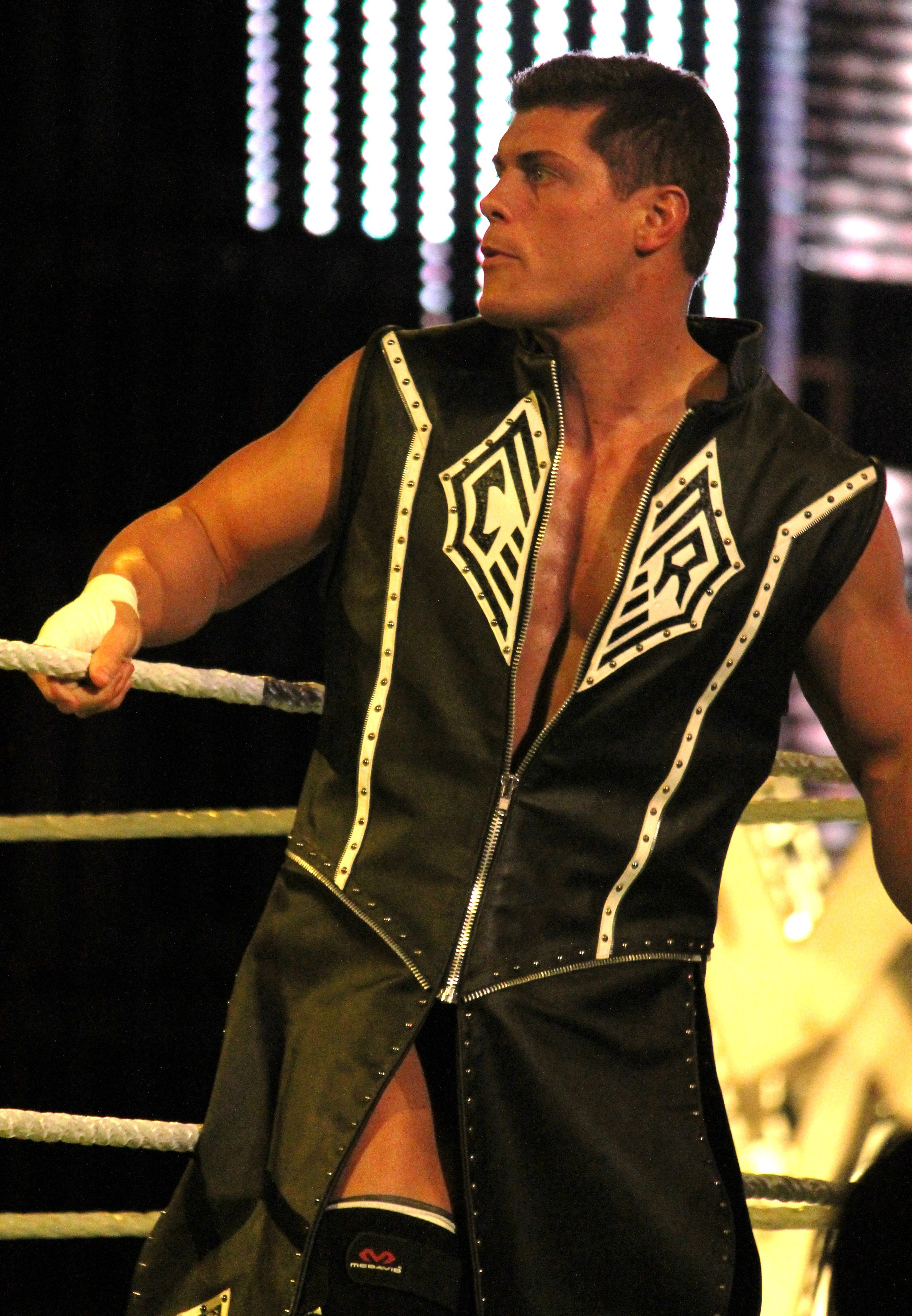 Cody Rhodes at the post-WrestleMania SmackDown tapings on 8 April 2014 in Lafayette (picture lightened)